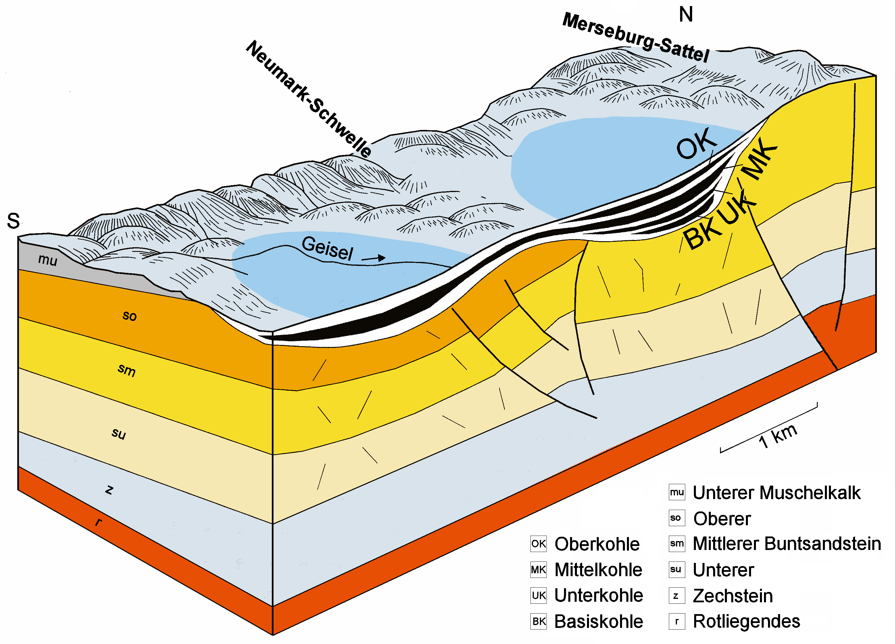 Geological setting of the Geiseltal area, Saxony Anhalt, Central Germany, drawn after Radzinski et al. (2008)[1] and Thomae & Rappsilber (2010)[2]